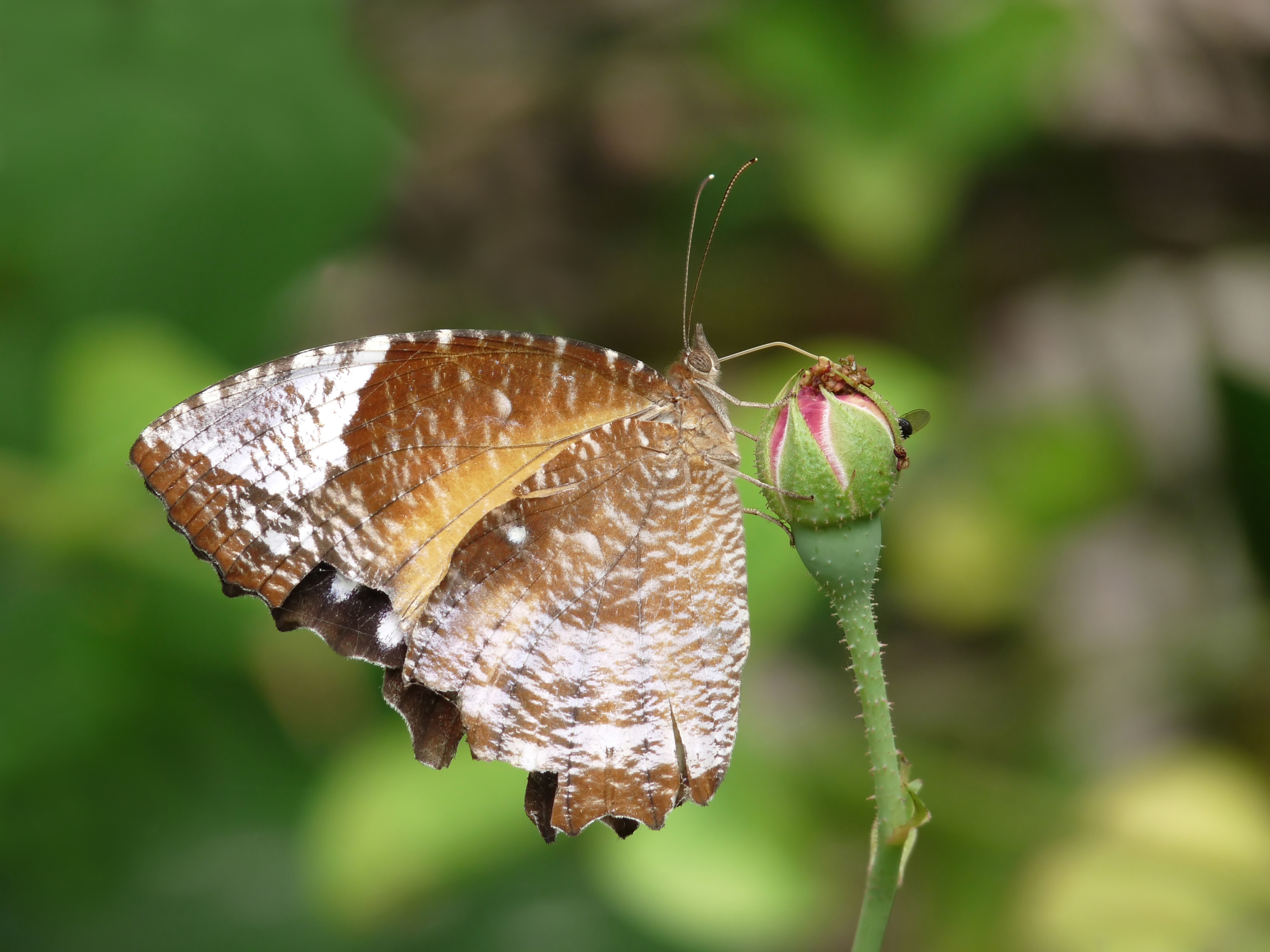 Elymnias caudata, Tailed Palmfly, is a species of satyrid butterfly found in South Asia. This butterfly species is dimorphic, males and females do not look alike. Males exhibit black colored upperside forewings with small blue patches and reddish brown color on upperside hindwings, while the females mimic butterfly species of the genus Danaus. Taken at Kadavoor, Kerala, India